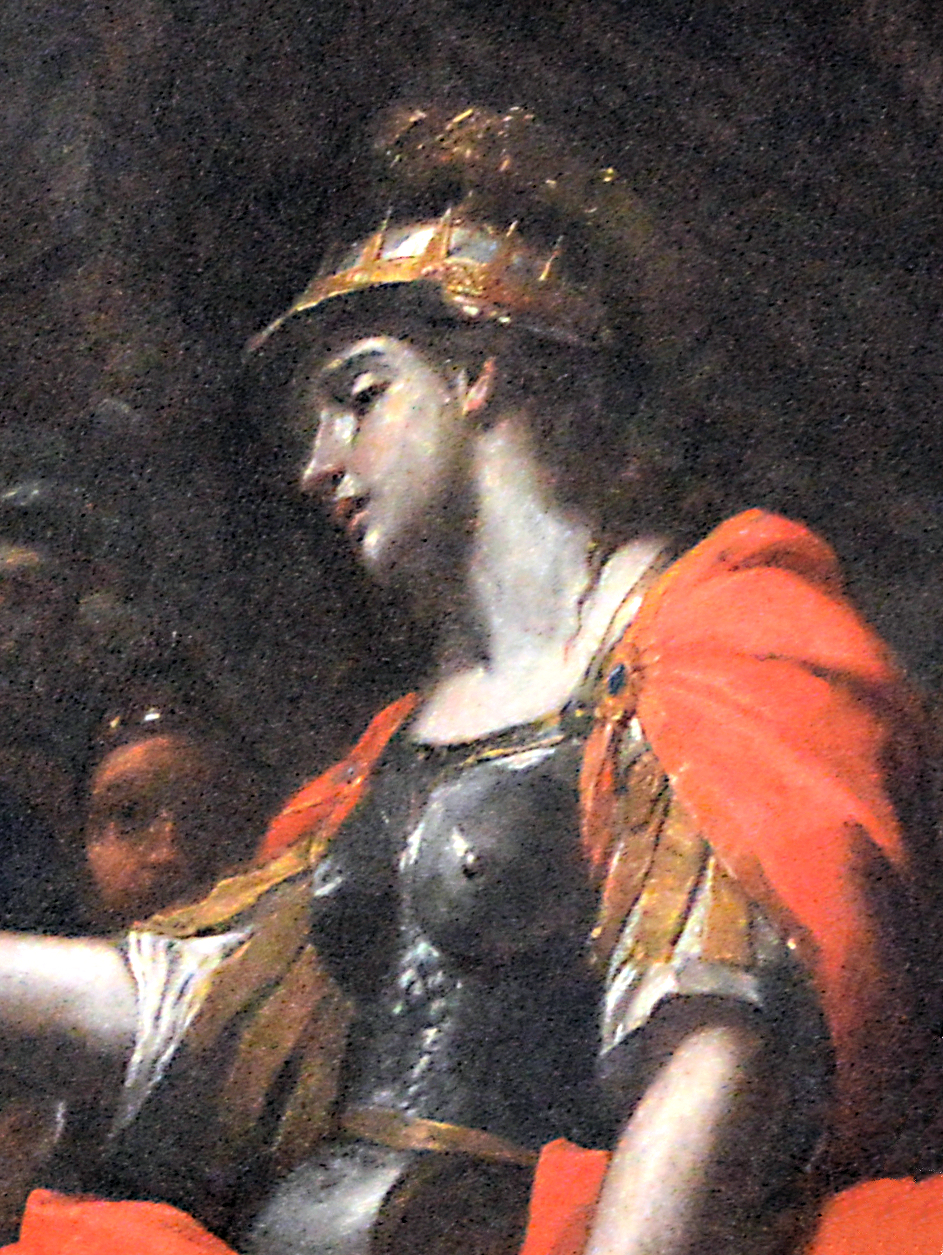 Queen Tomyris